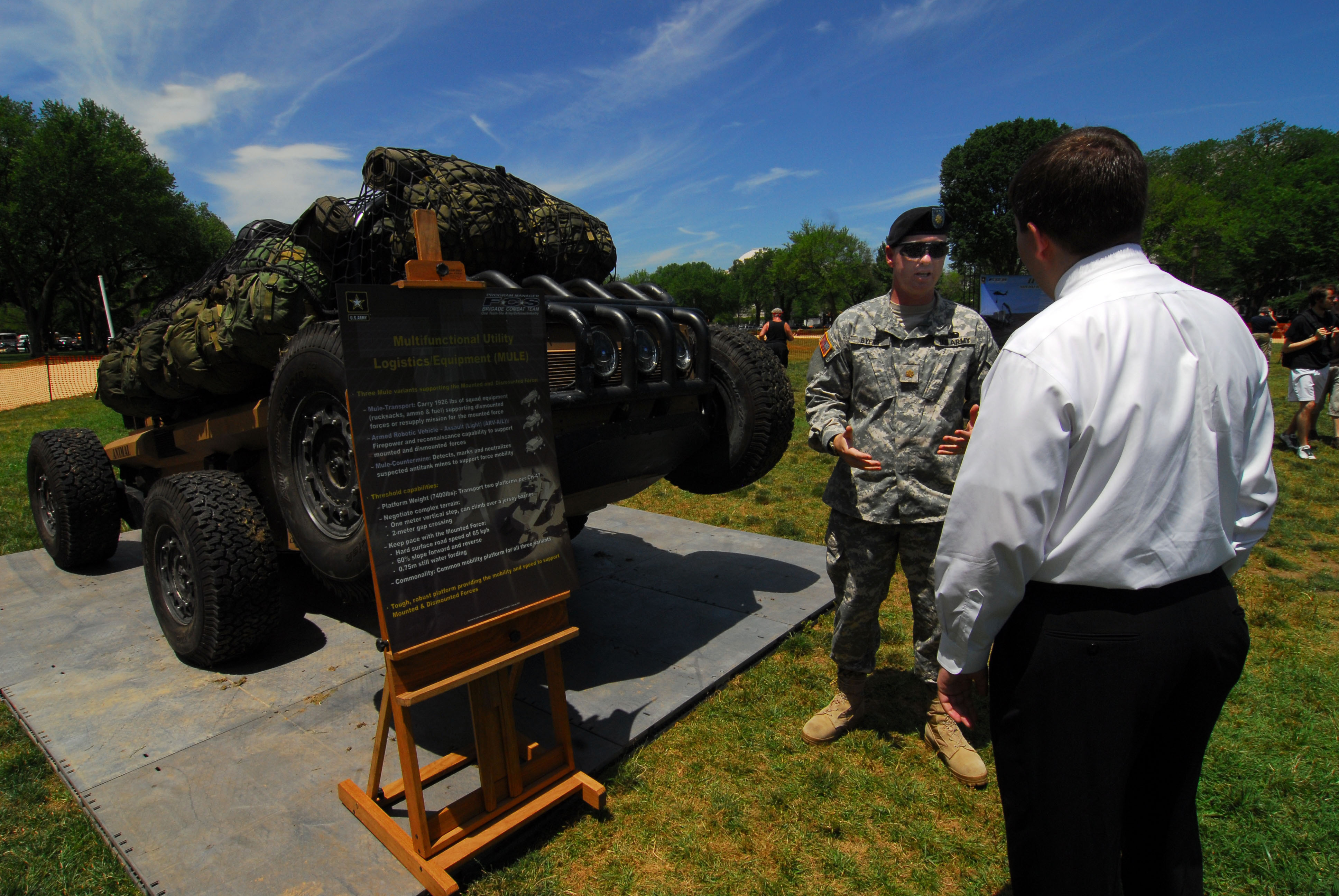 Maj. Brian Byers, a program manager for Future Combat Systems unmanned ground vehicles, explains features of the XM1217 Transport Multifunctional Utility/Logistics and Equipment vehicle to a visitor to the National Mall.